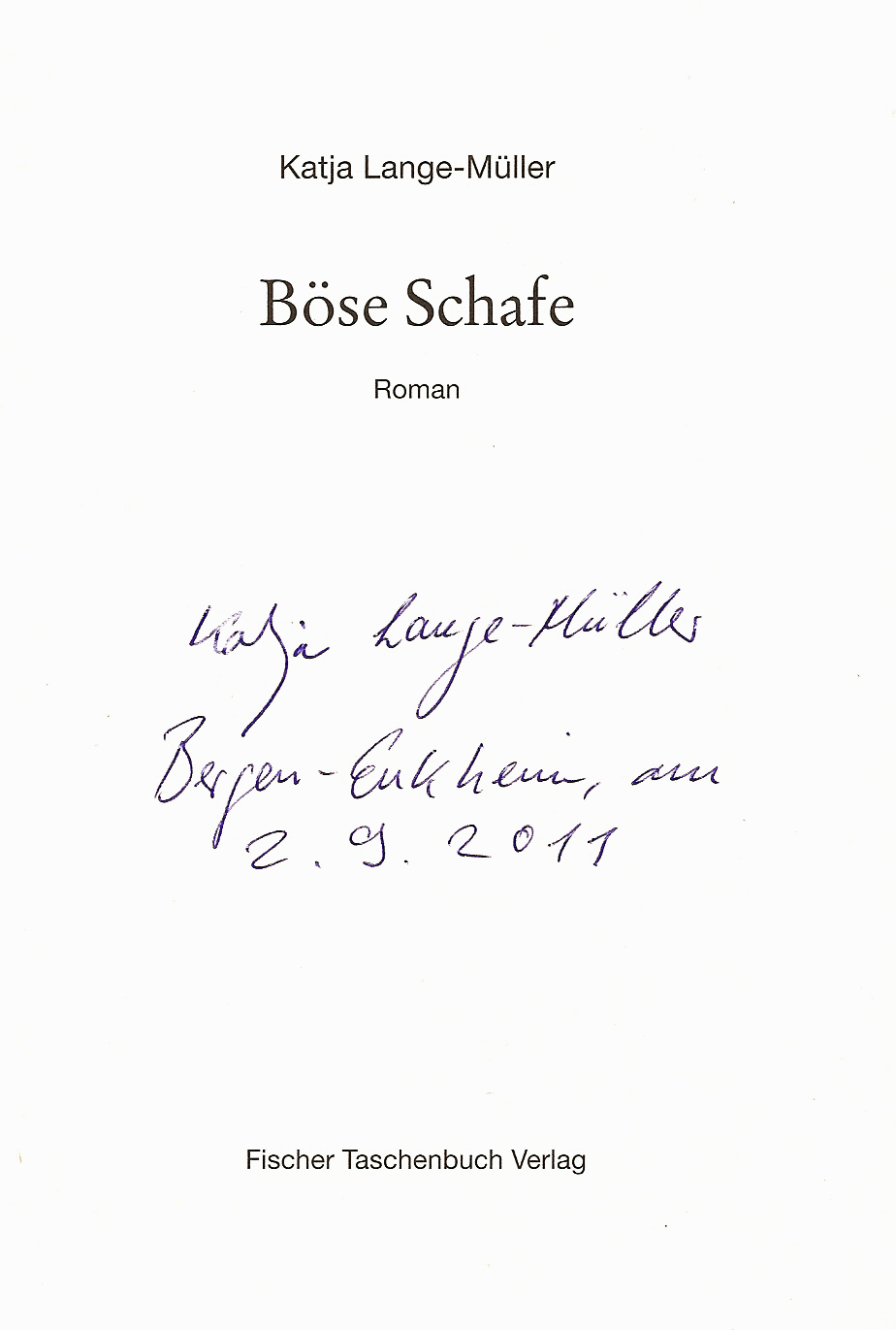 Autograph from Katja Lange-Mueller, German writer, 2011 in Frankfurt am Main, Germany.